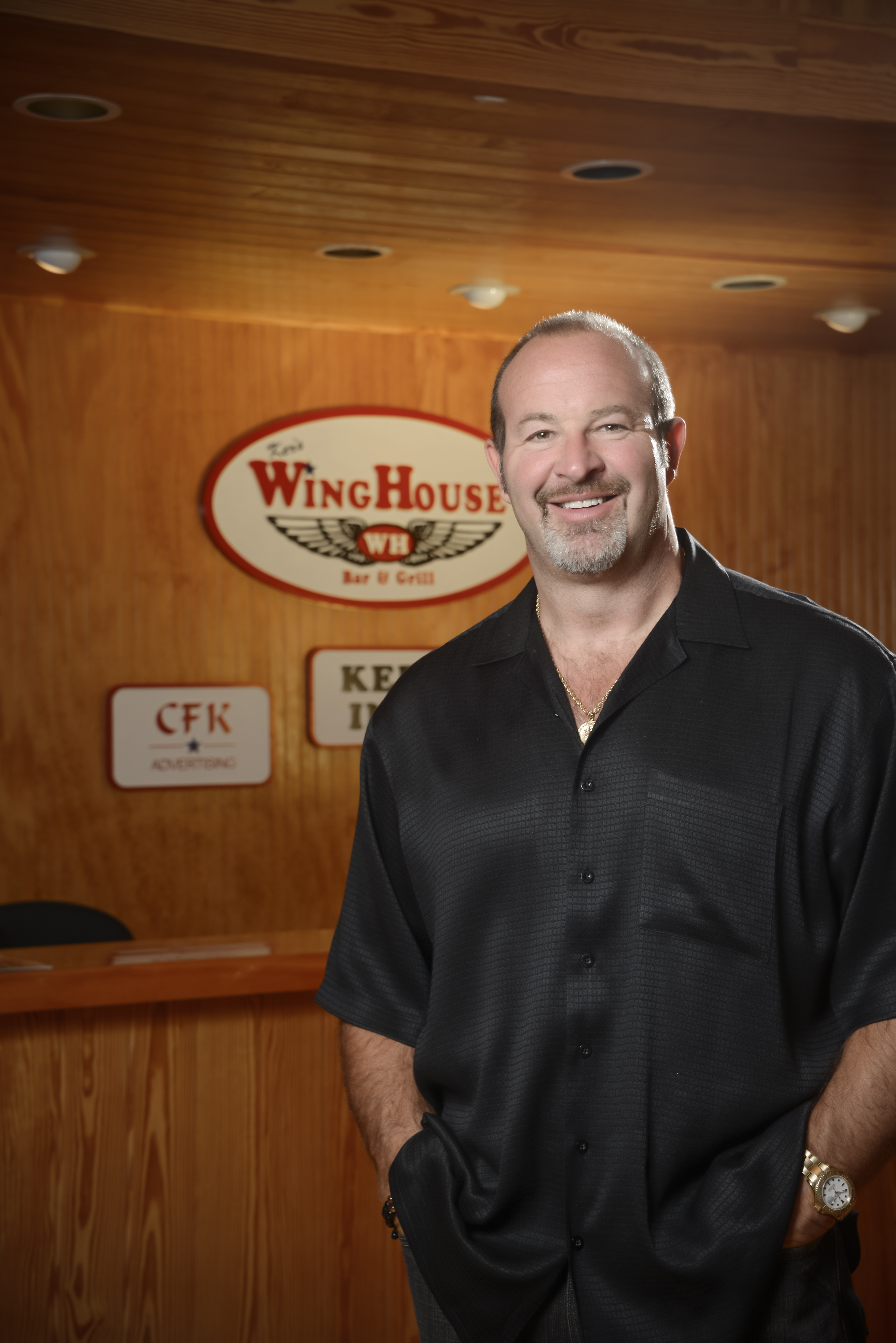 Crawford Ker, CEO and Founder of Ker's WingHouse Bar & Grill